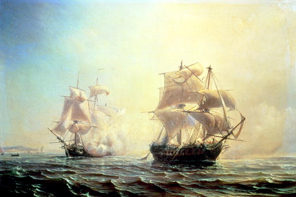 L'Embuscade fighting HMS Boston